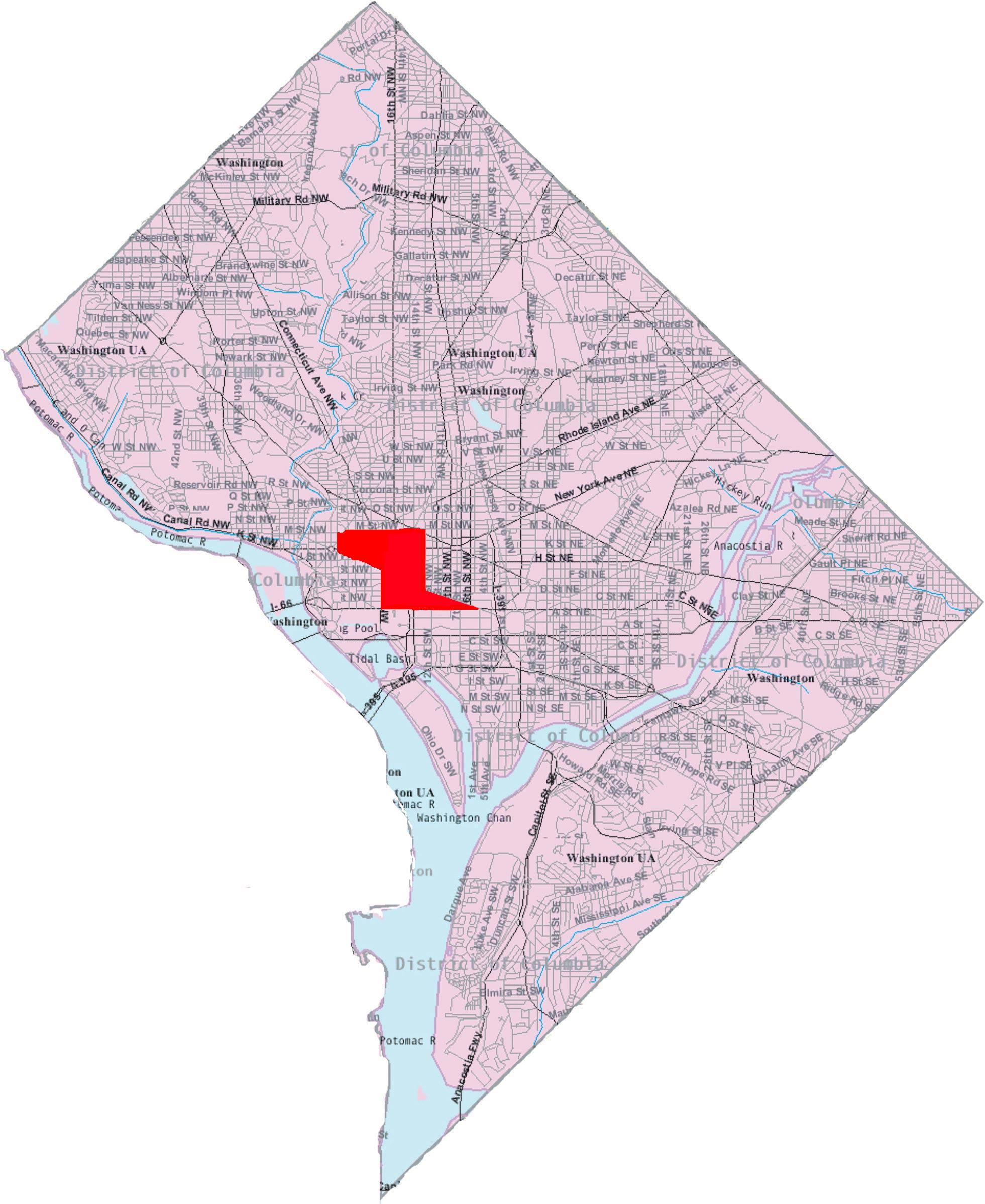 This image is a modified version of a self-generated reference map from the U.S. Census Bureau's American Factfinder at by Wikipedia user Msclguru.